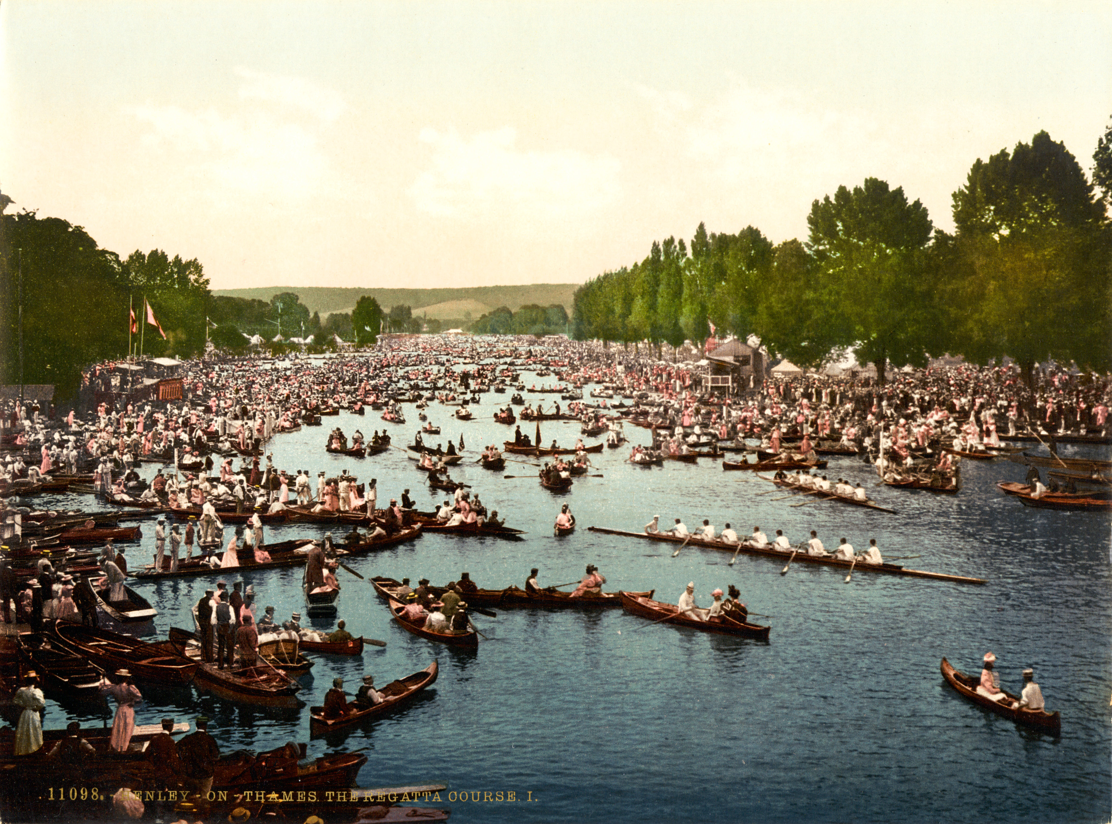 The Regatta course, Henley Regatta, Henley-on-Thames, London and suburbs, England. 1 photomechanical print : photochrom, color.